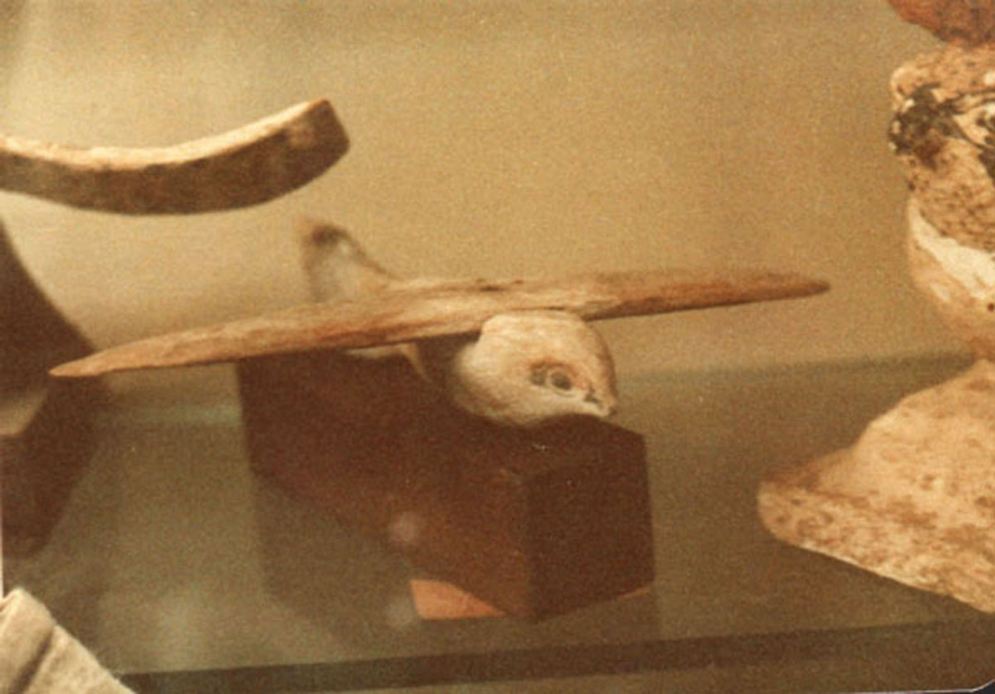 front view of the Saqqara glider model discovered by Dr. Khalil Messiha